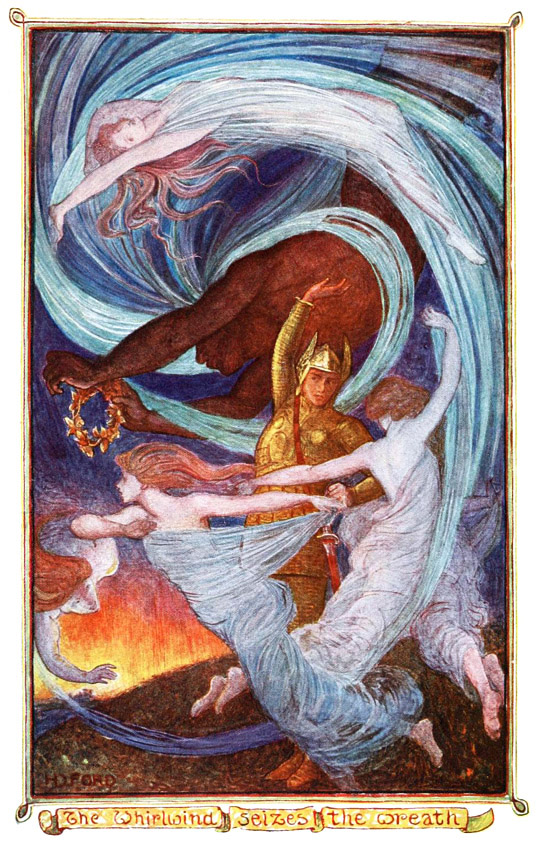 Illustration by H.J. Ford for Andrew Lang's "The Violet Fairy Book"